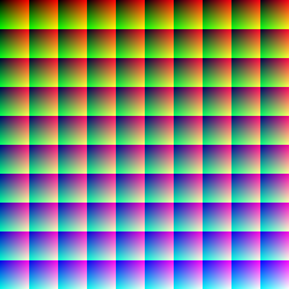 This image (when viewed in full size, 1000 pixels wide) contains 1 million pixels, each of a different color. The human eye can distinguish about 10 million different colors, but most of them lie outside the gamut of this image. Created with the following very short program written in Chipmunk Basic: 10 for x = 0 to 999 20 for y = 0 to 999 30 z = int(y/100)*10+int(x/100) 40 graphics color x,y,z ' x=red y=green z=blue 50 pset x,y 60 next y,x The value for red changes cyclically in the left-right axis, in ten periods of a sawtooth wave, going from 0 to 100% in 1% increments per pixel; the value for green changes cyclically in the vertical axis in the same way; while the value for blue changes by 1% in each small, 100 by 100 pixel square, moving across then down, as seen when the channels are separated below. Imagine putting all the 100 by 100 pixel squares on top of each other — you would then have a cube, 100 px each side, with R, G, and B along the x, y, and z coordinates, each changing 1% for every step. In the above example blue changes by 1% in each small square of 100 by 100 pixels, but it could just as well have been red or green. Below are three squares, the top has red changing in each small square, the middle one changes are in green and the bottom is blue. Each of the large squares contain the same set of colors, but in different arrangements. Different arrangements of the same colors (for demonstration only, these are small imperfect renderings).